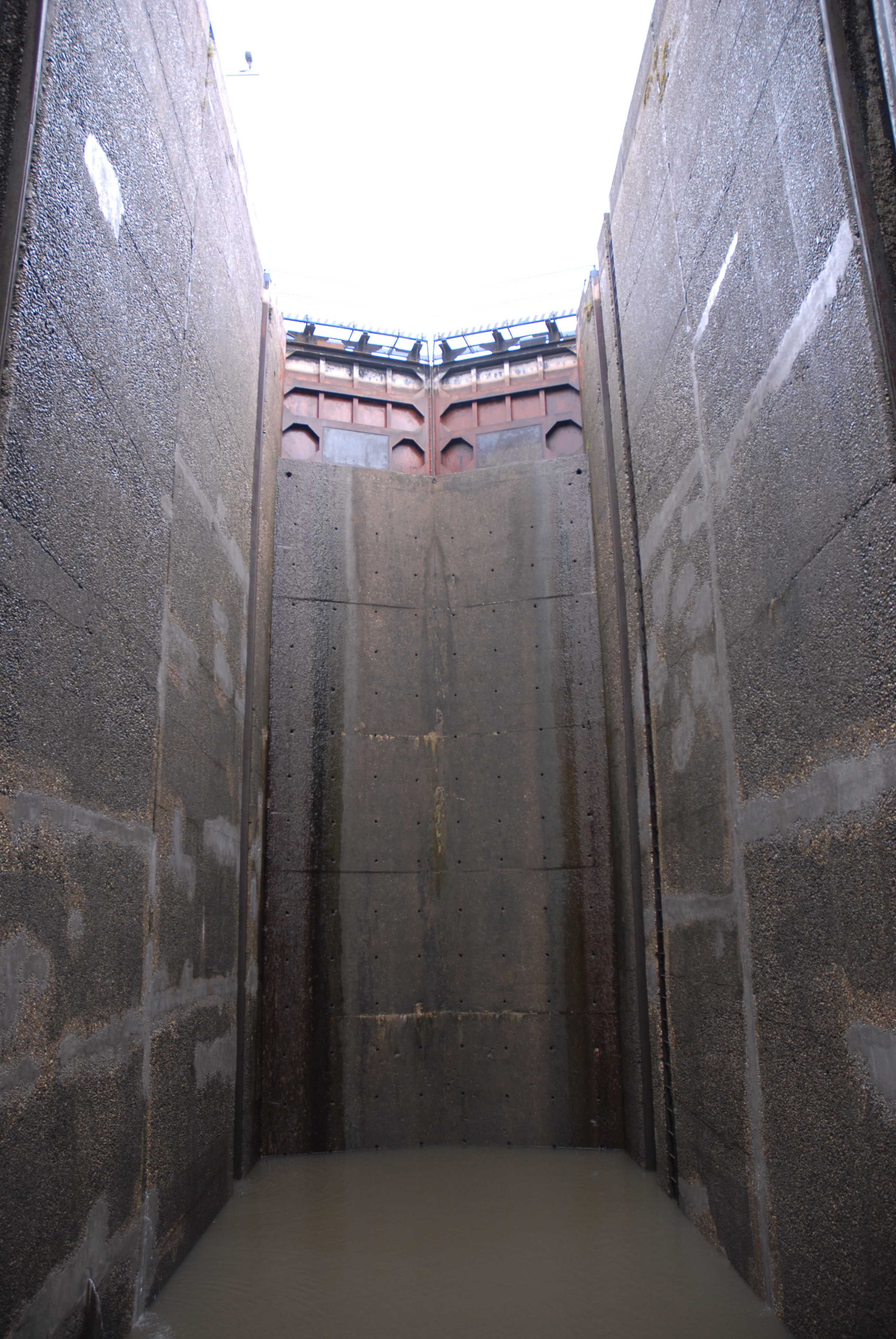 Rechicourt lock: The upper gate